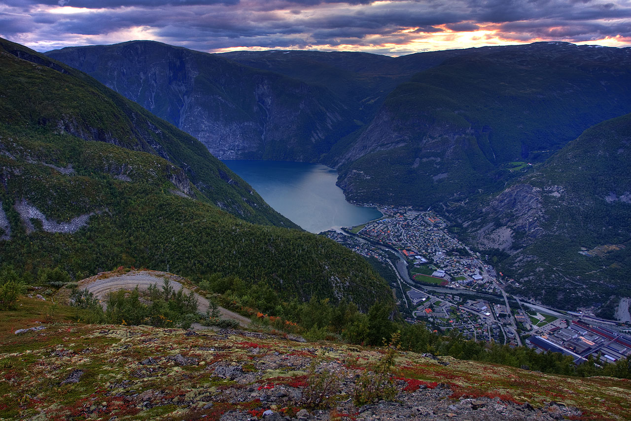 Øvre Årdal in Norway is a modern industrial community with 3422 inhabitants (07) It is surrounded by dramatic nature with high mountains and waterfalls